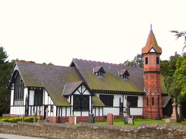 Parish church of St Mary the Virgin, Meadow Lane, Haughton Green, Greater Manchester, seen from the northeast